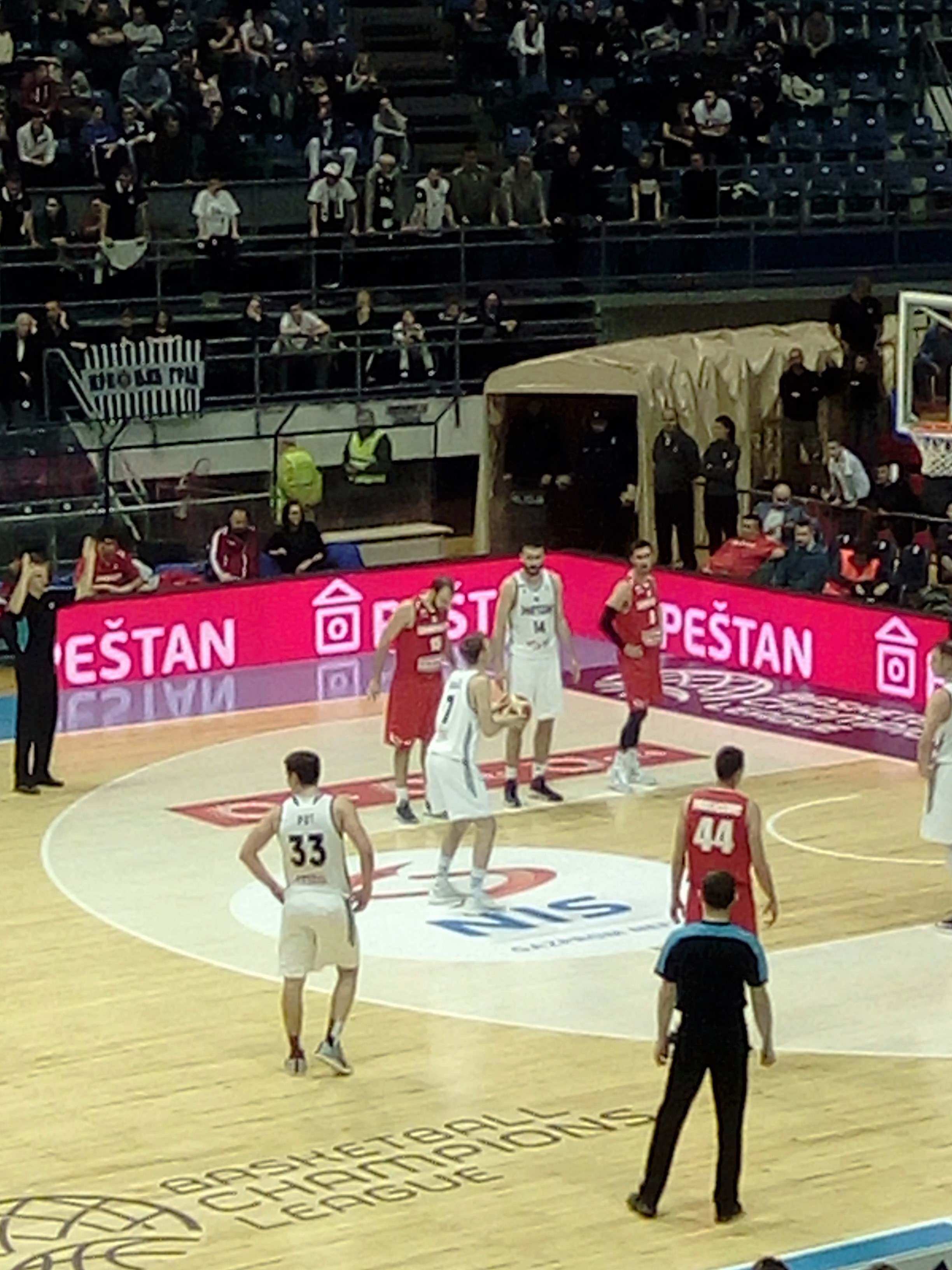 Basketball Champions League: KK Partizan - Szolnoki Olaj KK 77:67